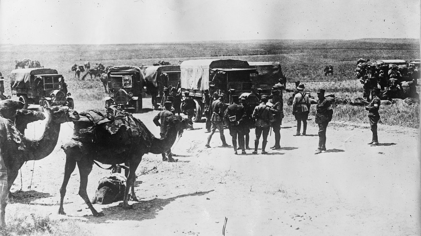 Greek general headquarters during the Asia Minor Campaign, August or September 1921